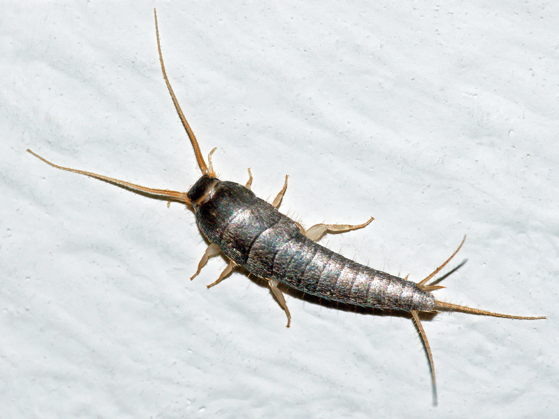 Close-up of a Silverfish, Lepisma saccharina, on a room wall. Estimated length: 1 cm (body only).